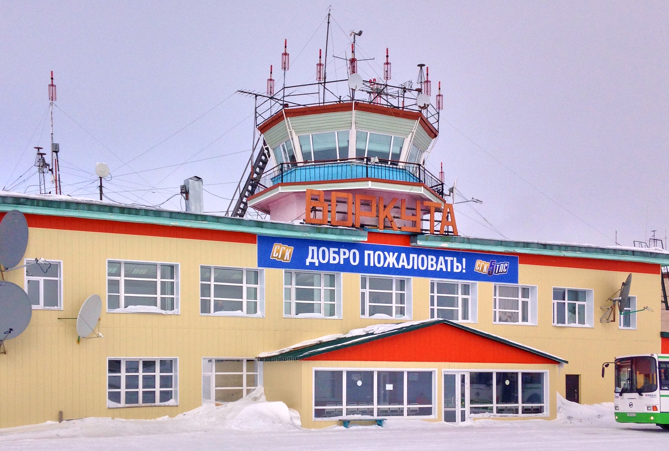 Vorkuta airport